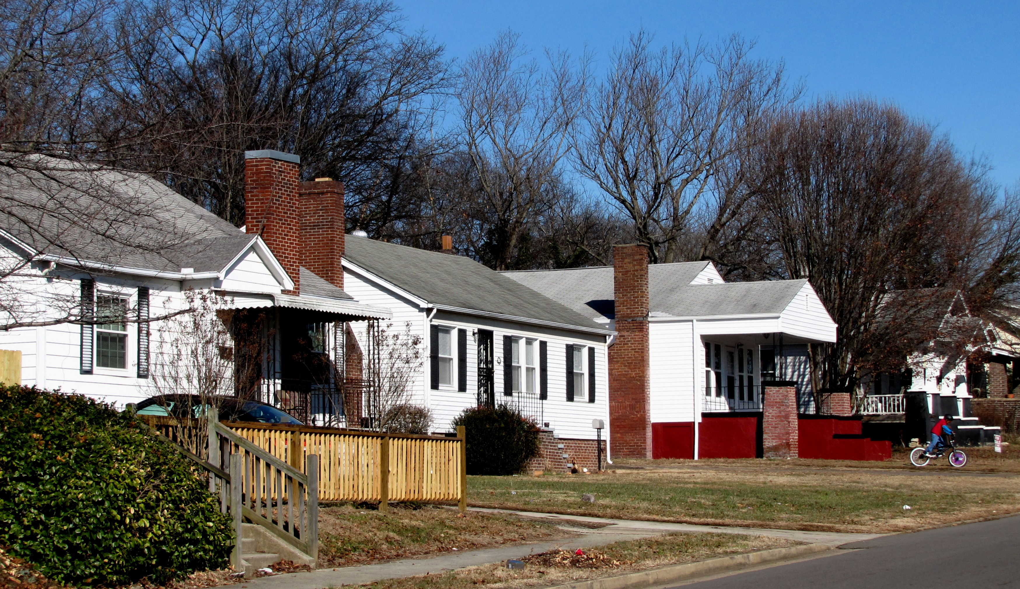 Houses along Woodbine Avenue in the Chilhowee Park neighborhood of Knoxville, Tennessee, USA. These houses were built in the 1930s, 1940s, and early 1950s.